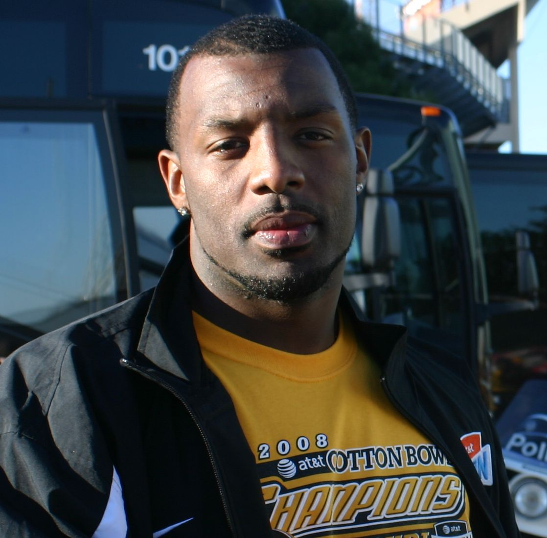 photo of willie moore